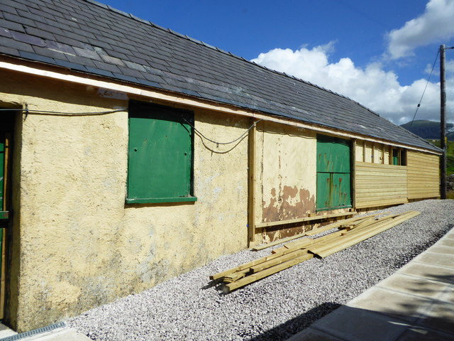 Station building at Waterfall Halt on the Snowdon Mountain railway